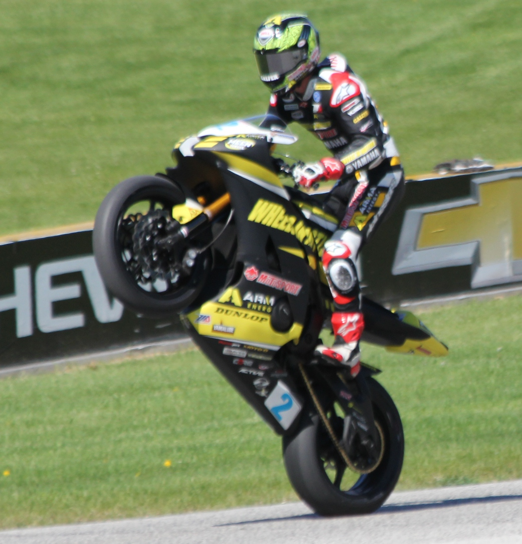 MotoAmerica Supersport rider Josh Herrin pops a wheelie after a podium finish at Road America.